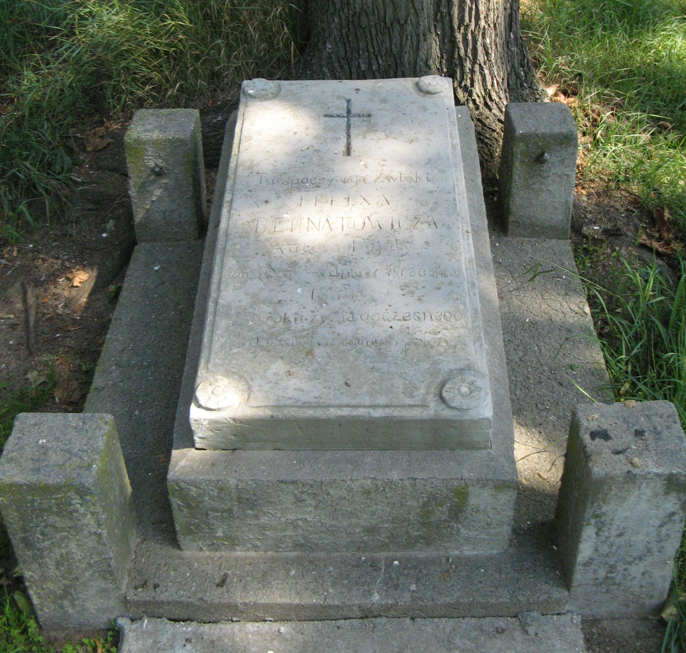 Tomb of Feliks Bernatowicz at Cathedral Cemetery in Łomża